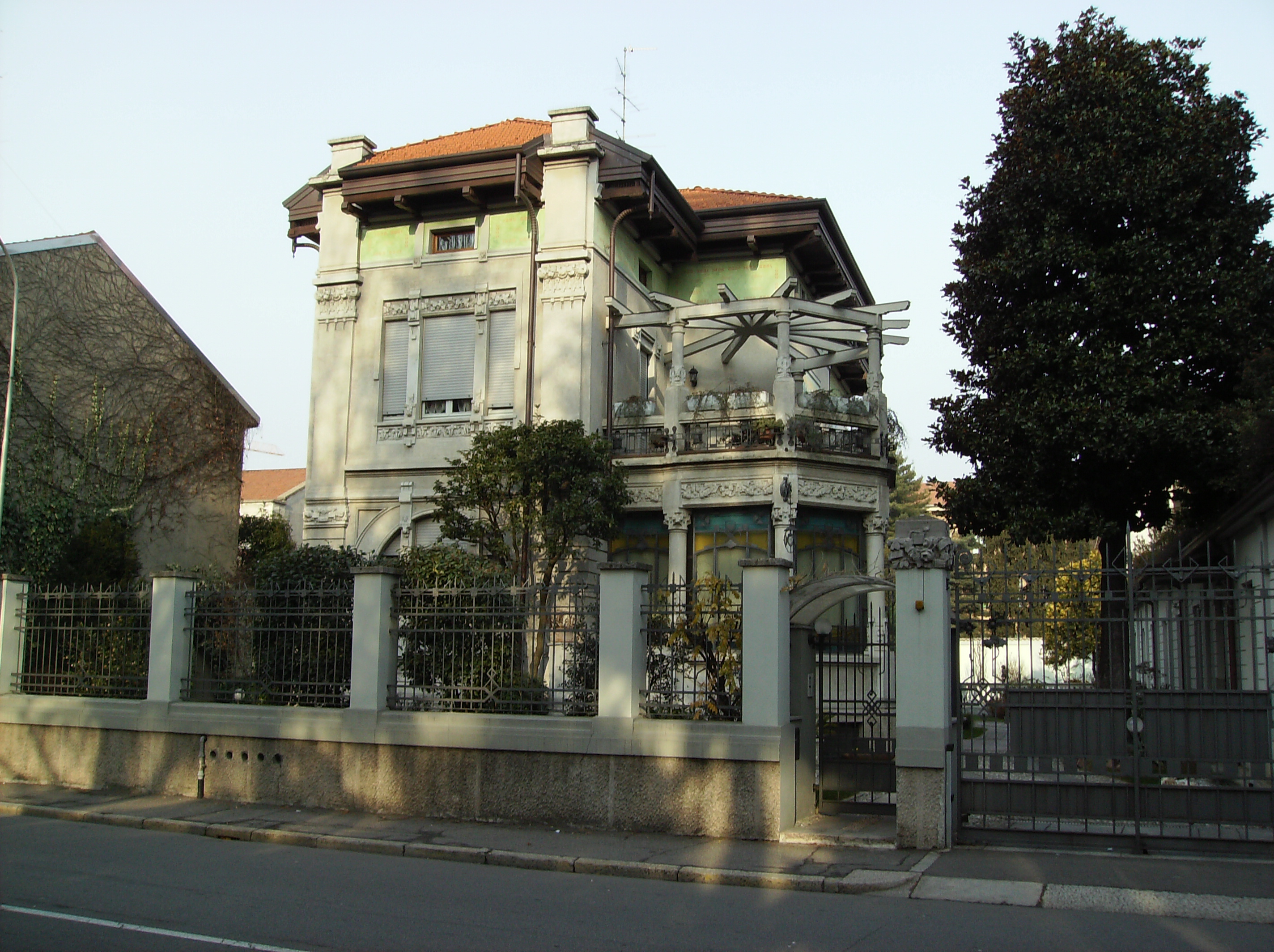 Picture of Villa Leone, Busto Arsizio.